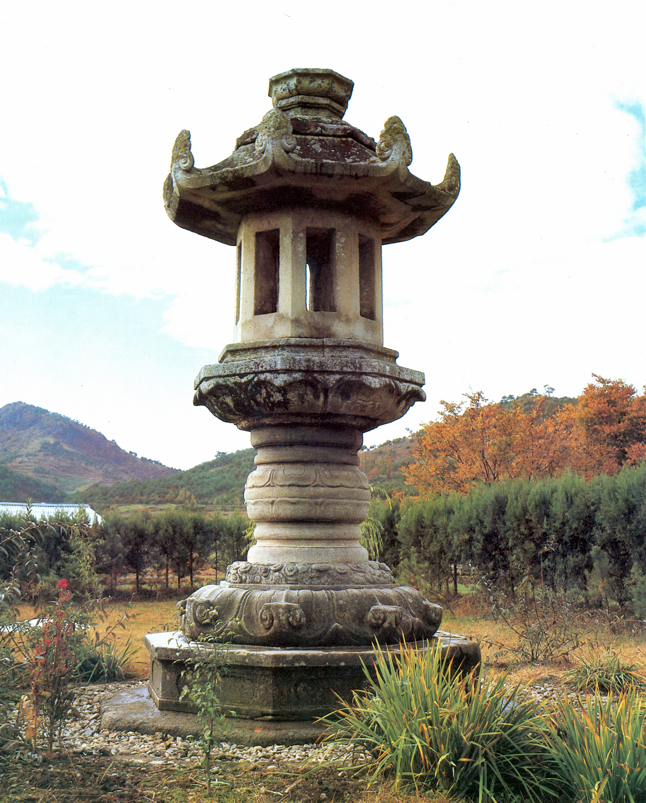 Stone lanterns at Jingusa temple site in Imsil, Korea